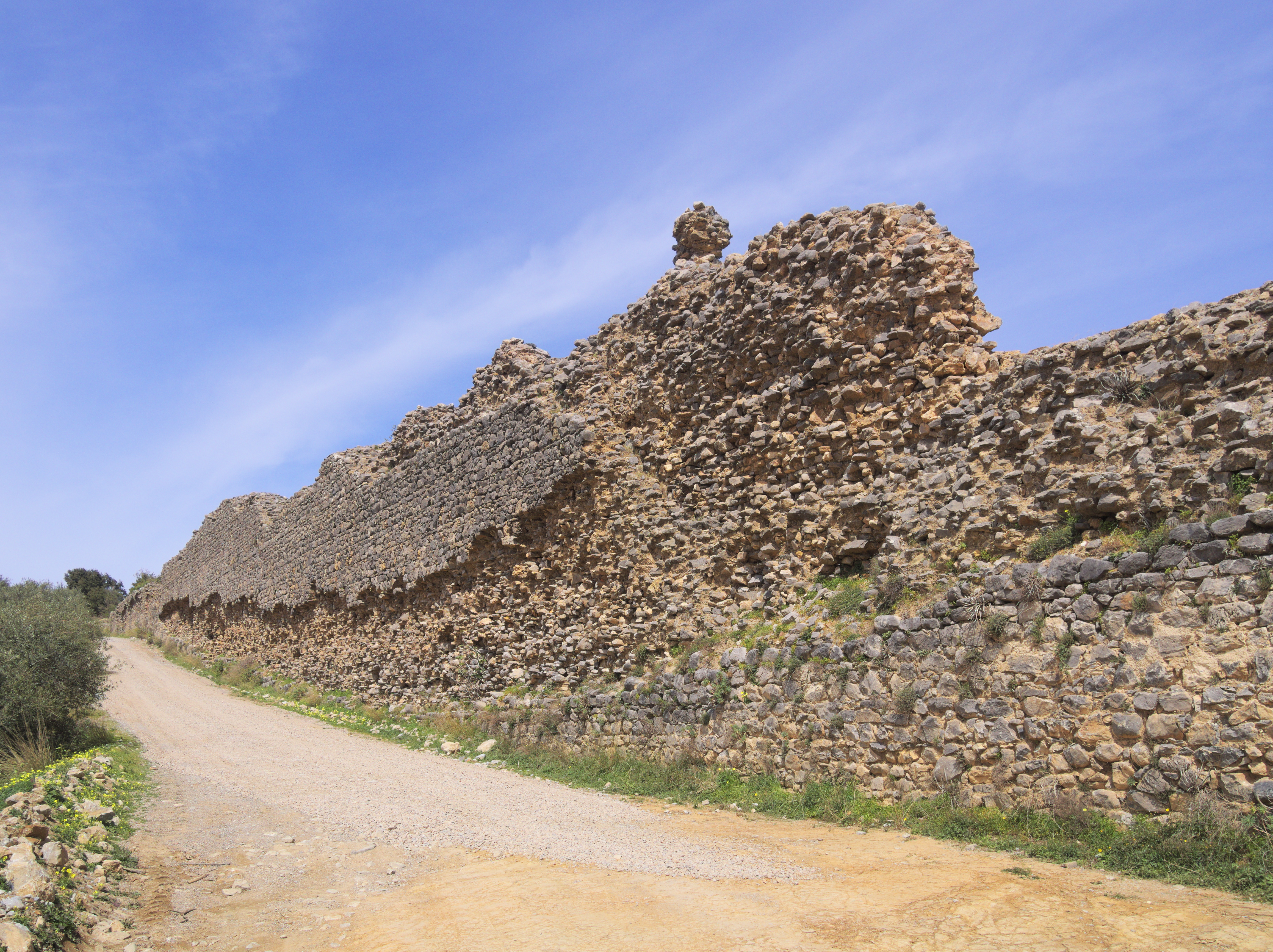 The roman aqueduct of Lyktos, located north of Kastamonitsa, Crete.